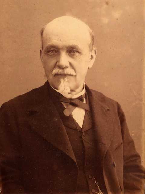 Célestin de Blignières, philosophe (1823-1905), gendre de Joseph Liouville, mathématicien (1809-1882)